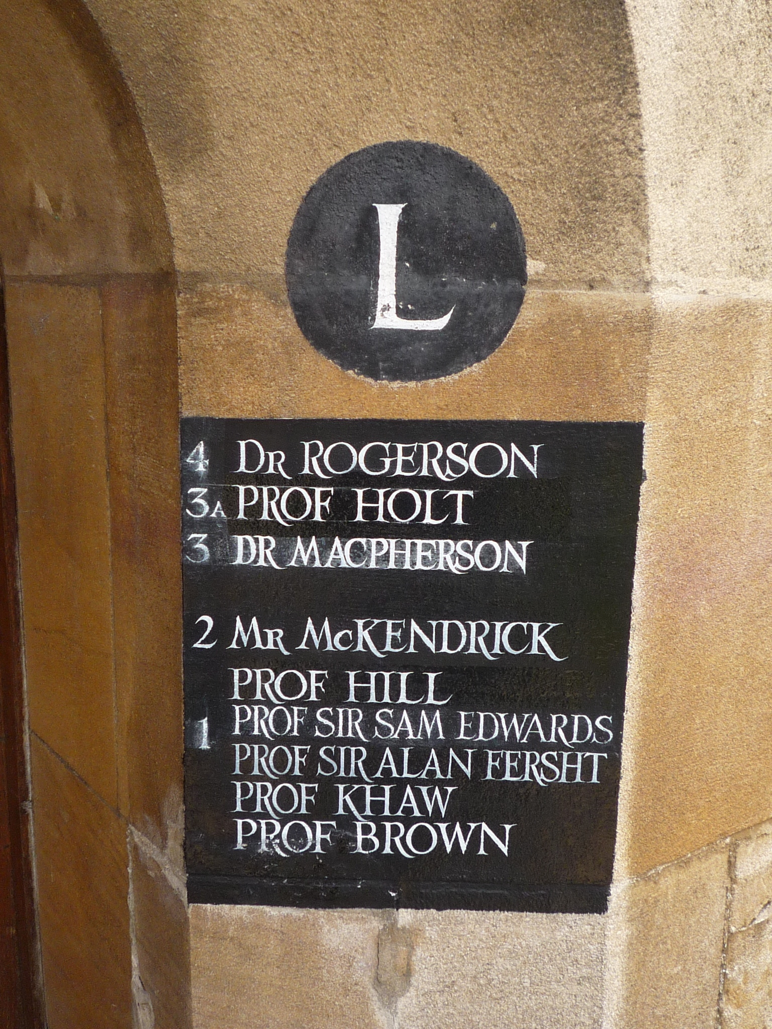 Staircase L at Gonville & Caius College, Cambridge in 2010, listing academics' offices. Those shown include Professors Alan Fersht and Sam Edwards (now deceased).